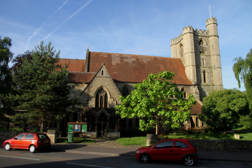 SS Mary and John parish church, Cowley Road, Oxford, seen from the north